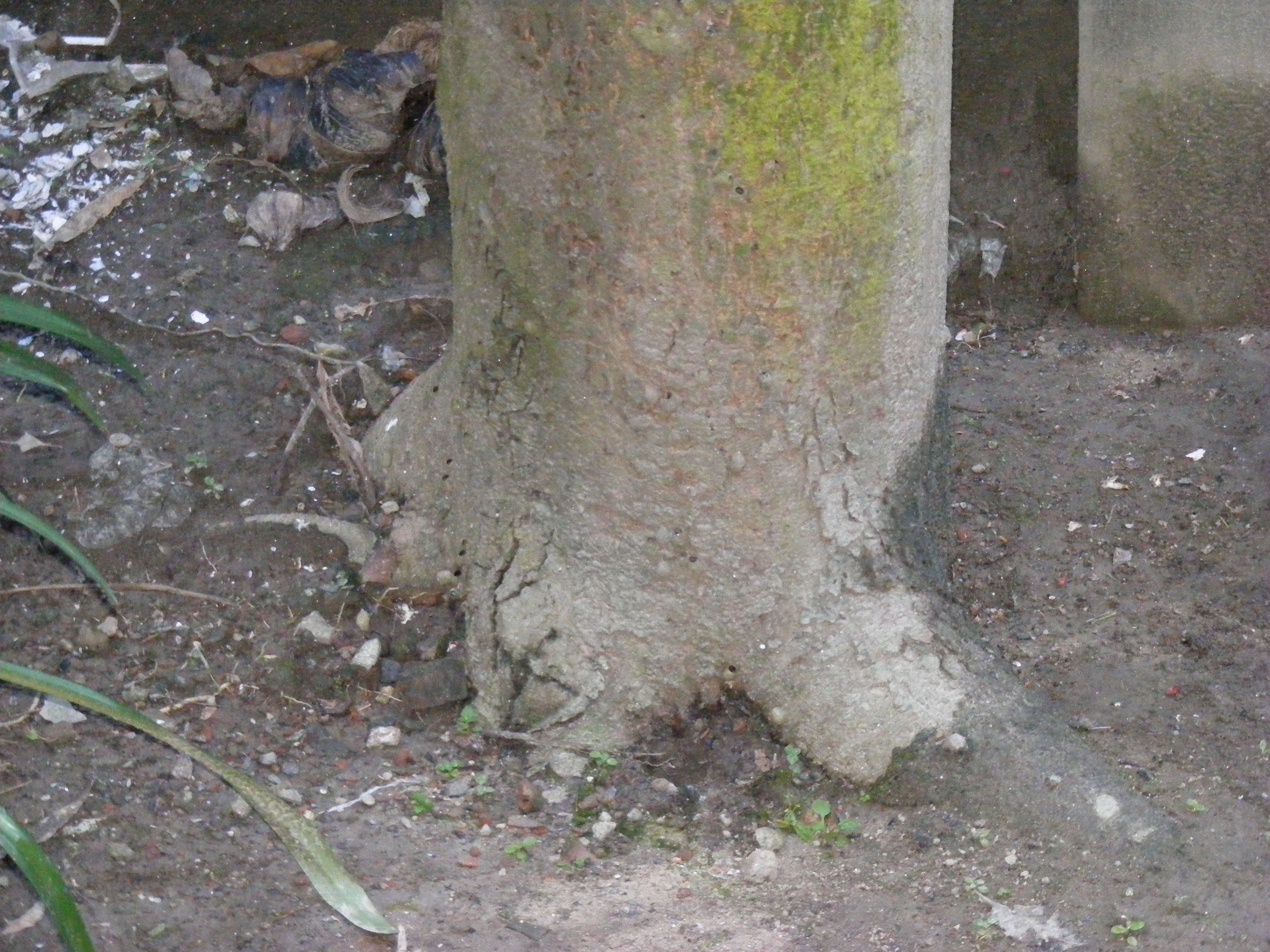 Mango Roots